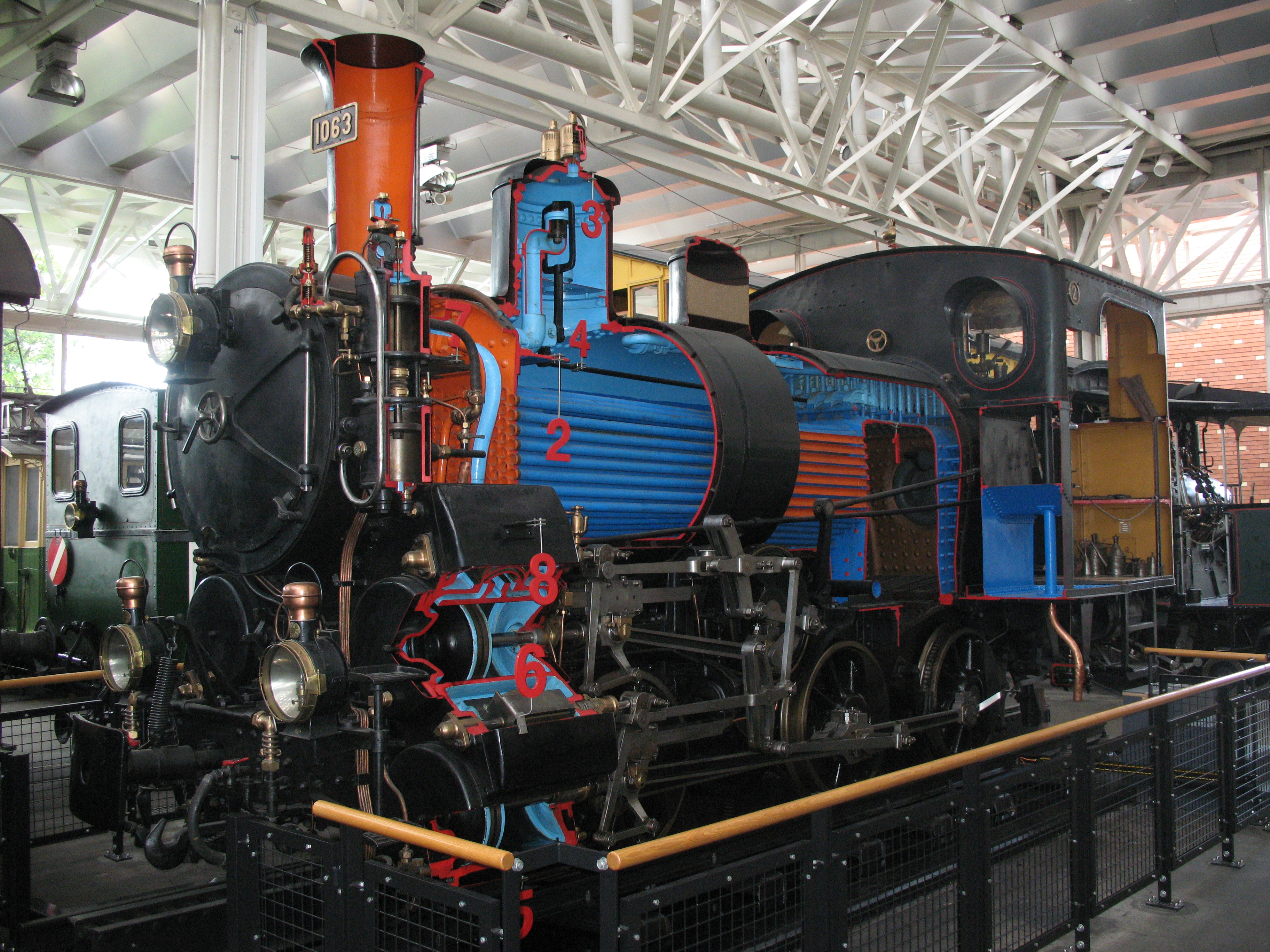 SBB-CFF-FFS HG 3/3 #1063 (cut-away) in the Swiss Transport Museum, Luzern, Switzerland